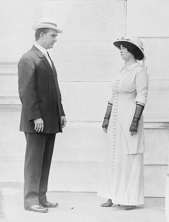 Photo shows Representative Robert L. Henry and Mrs. Littleton, wife of Rep. Martin W. Littleton, who worked together in 1912 to attempt to have the U.S. Government purchase Thomas Jefferson's estate, Monticello, from Rep. Jefferson M. Levy.